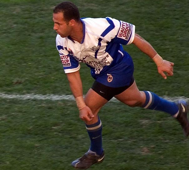 Rugby action